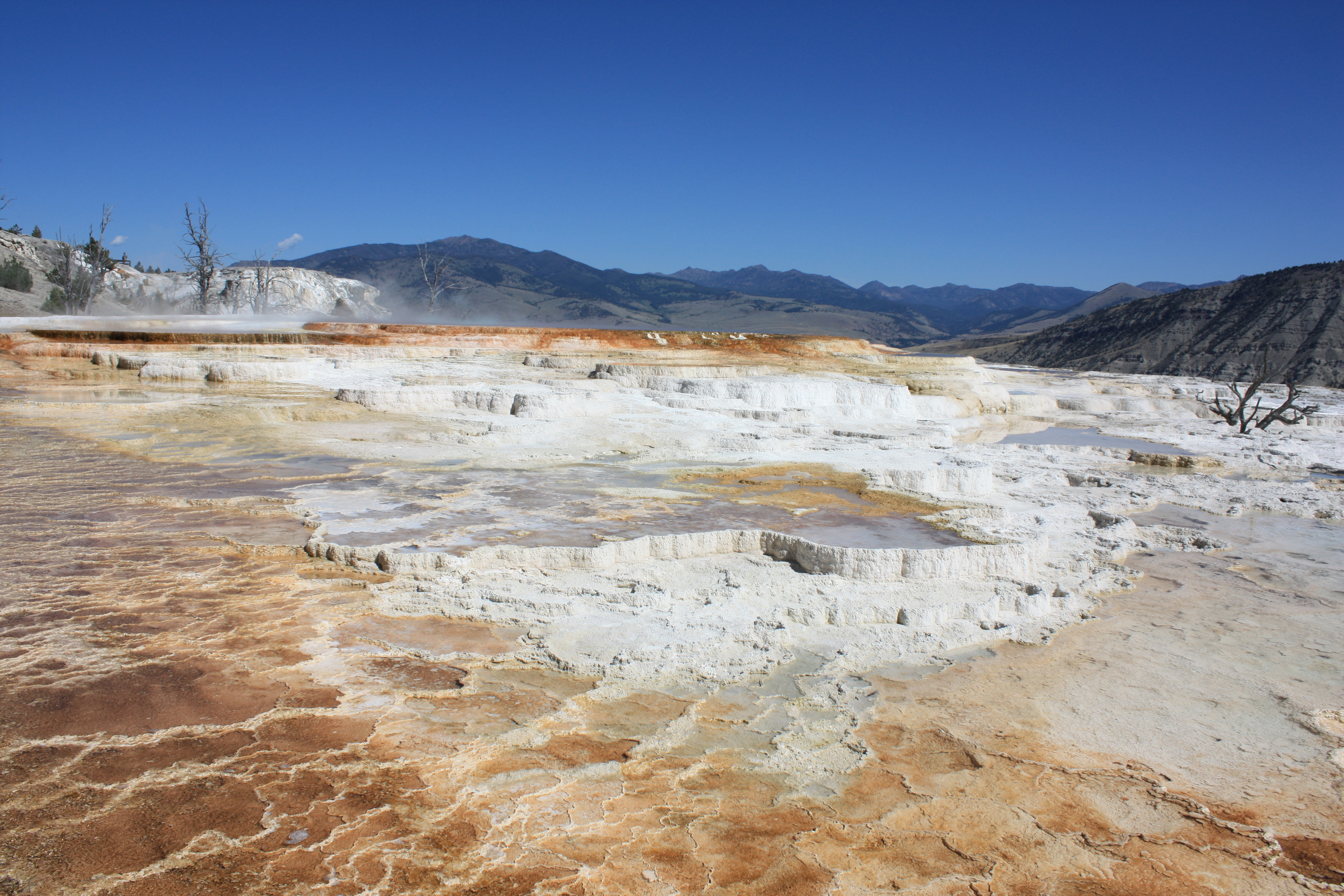 Photo of the central region of the Mammoth Hot Springs. In the background, you can see the distant mountains northeast Wyoming. The terraces are made of the crystalized calcium carbonate, which solidfies when cooled. The Mammoth Hot Springs are a constant tourism spot, and this picture was taken at a stop by the Hot Springs after leaving Yellowstone National Park. This image was taken at 10:58 on August 22 in 2011.